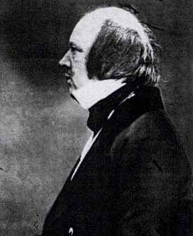 Portrait of William Fox Talbot (1800-1877)